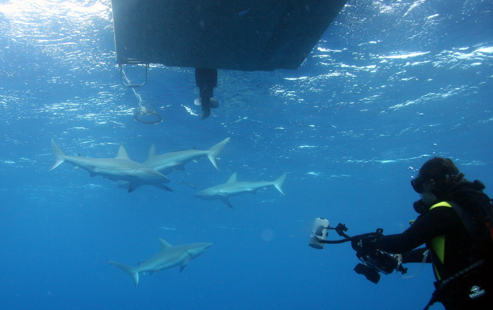 Caribbean reef sharks after feeding from the boat